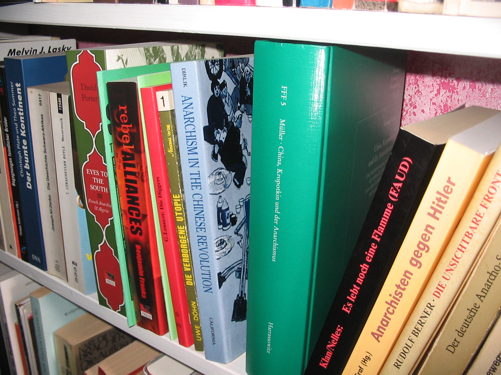 Gustav Landauer Library in Witten